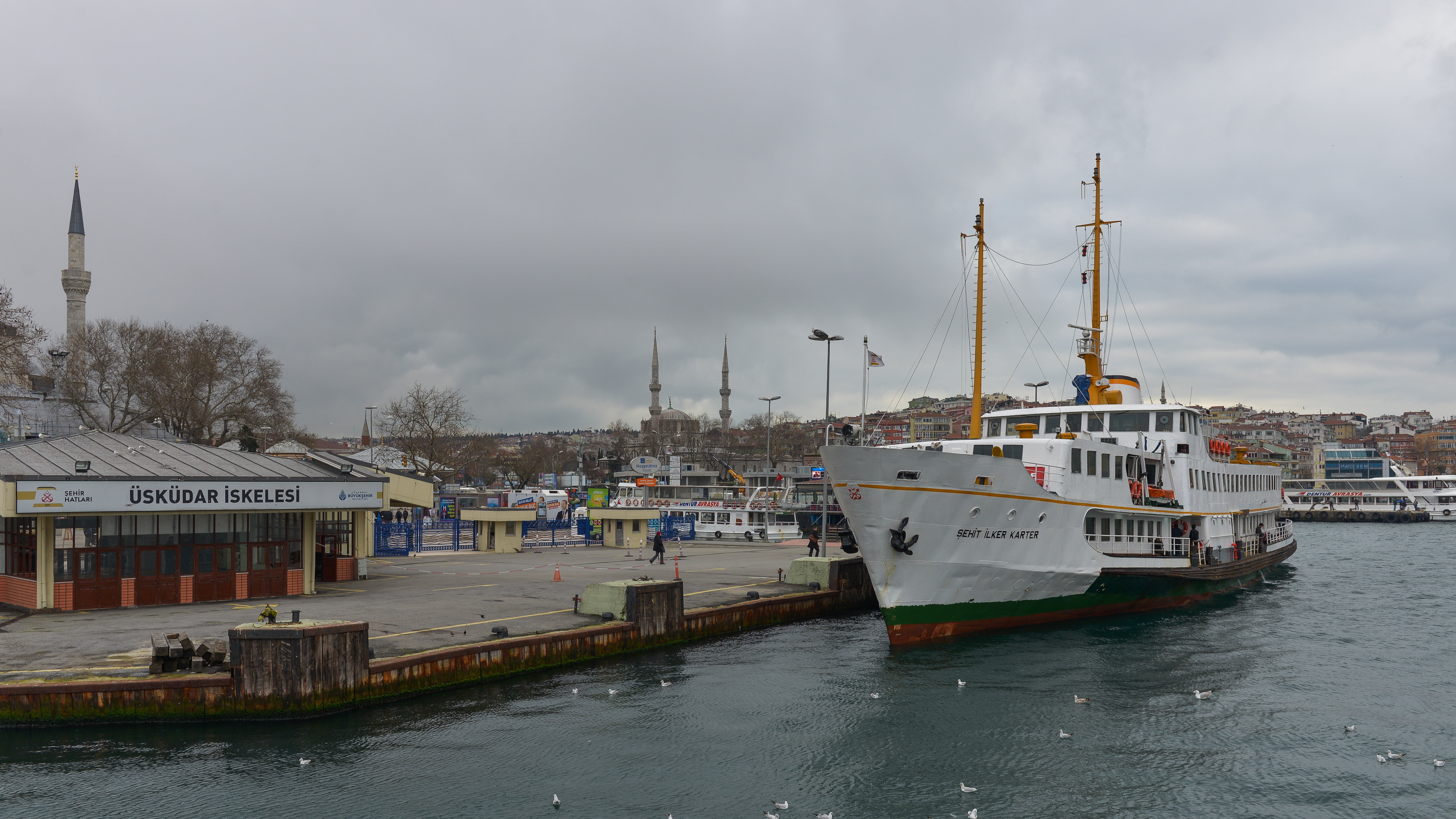 Üsküdar Iskelesi (jetty), Üsküdar, Istanbul.